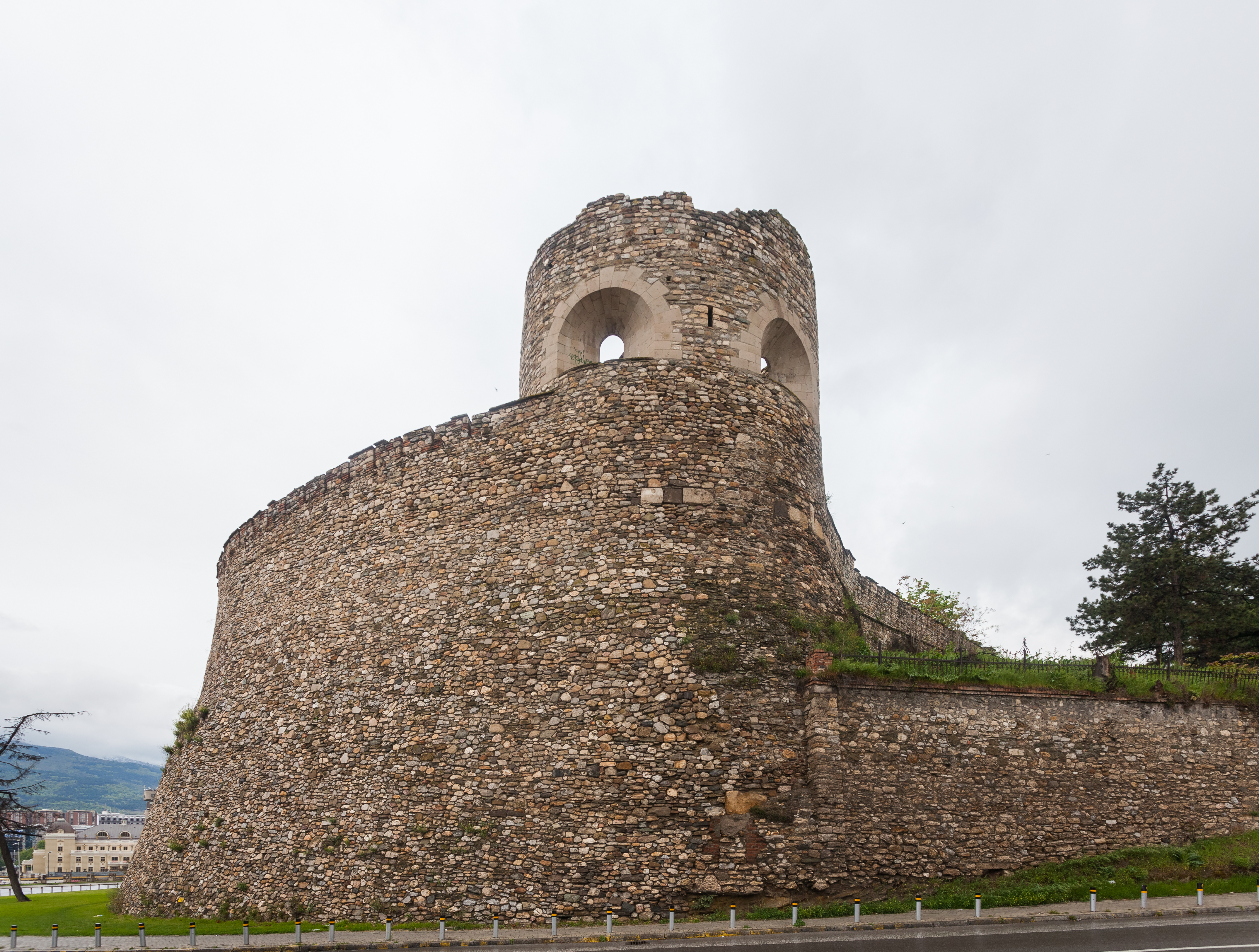 Skopje Fortress, Macedonia